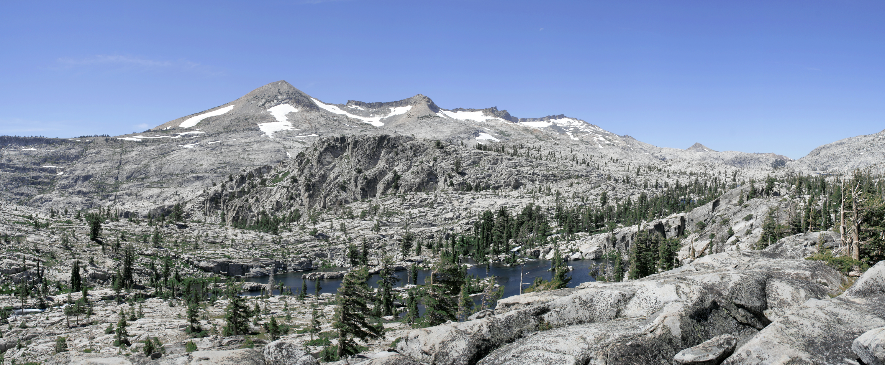 Crystal Mountains as seen from Desolation Valley